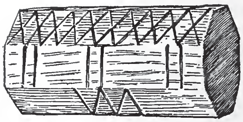 Lang Larence ("Long Lawrence"), a traditional English long die, as described by Alice Gomme, and reproduced by Stewart Culin in Chess and Playing-cards (1898) p. 822.